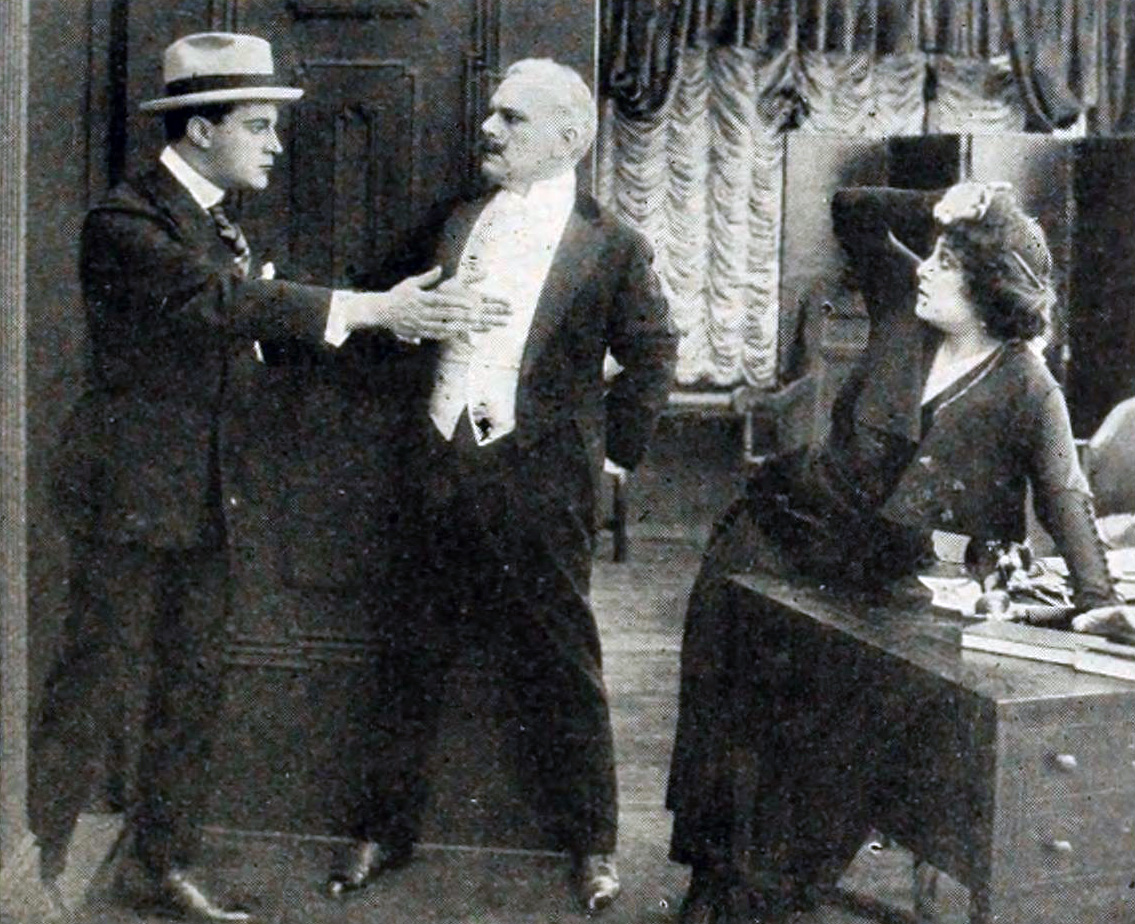 Illustration of an article in The Moving Picture World for the film The Woman Who Dared (1916).